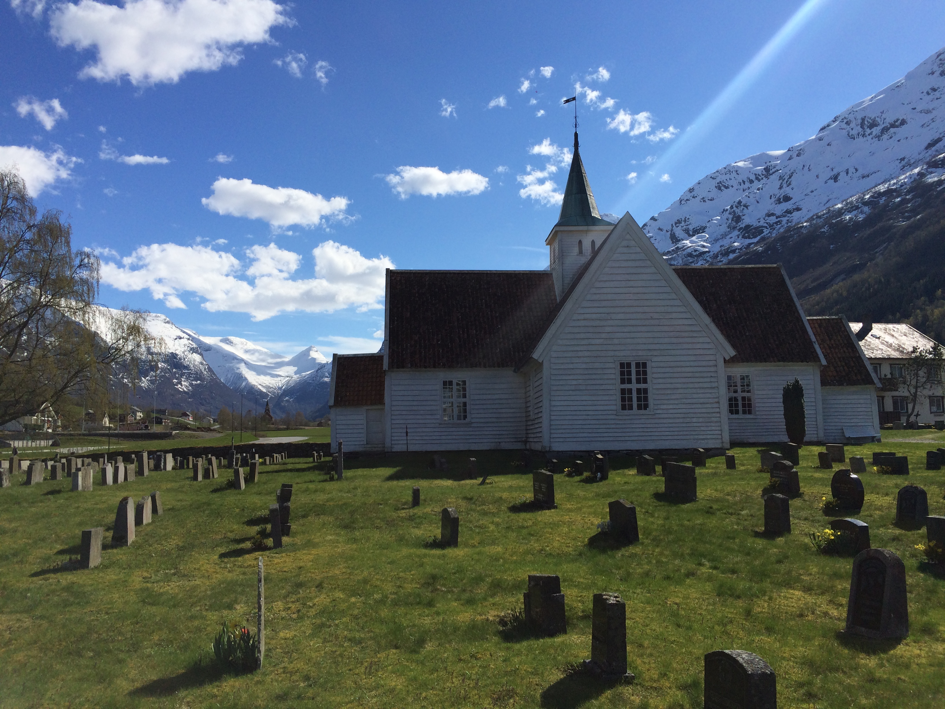 Olden Old Church in Olden, Stryn Municipality, Sogn og Fjordane, Norway. 28th April, 2015.